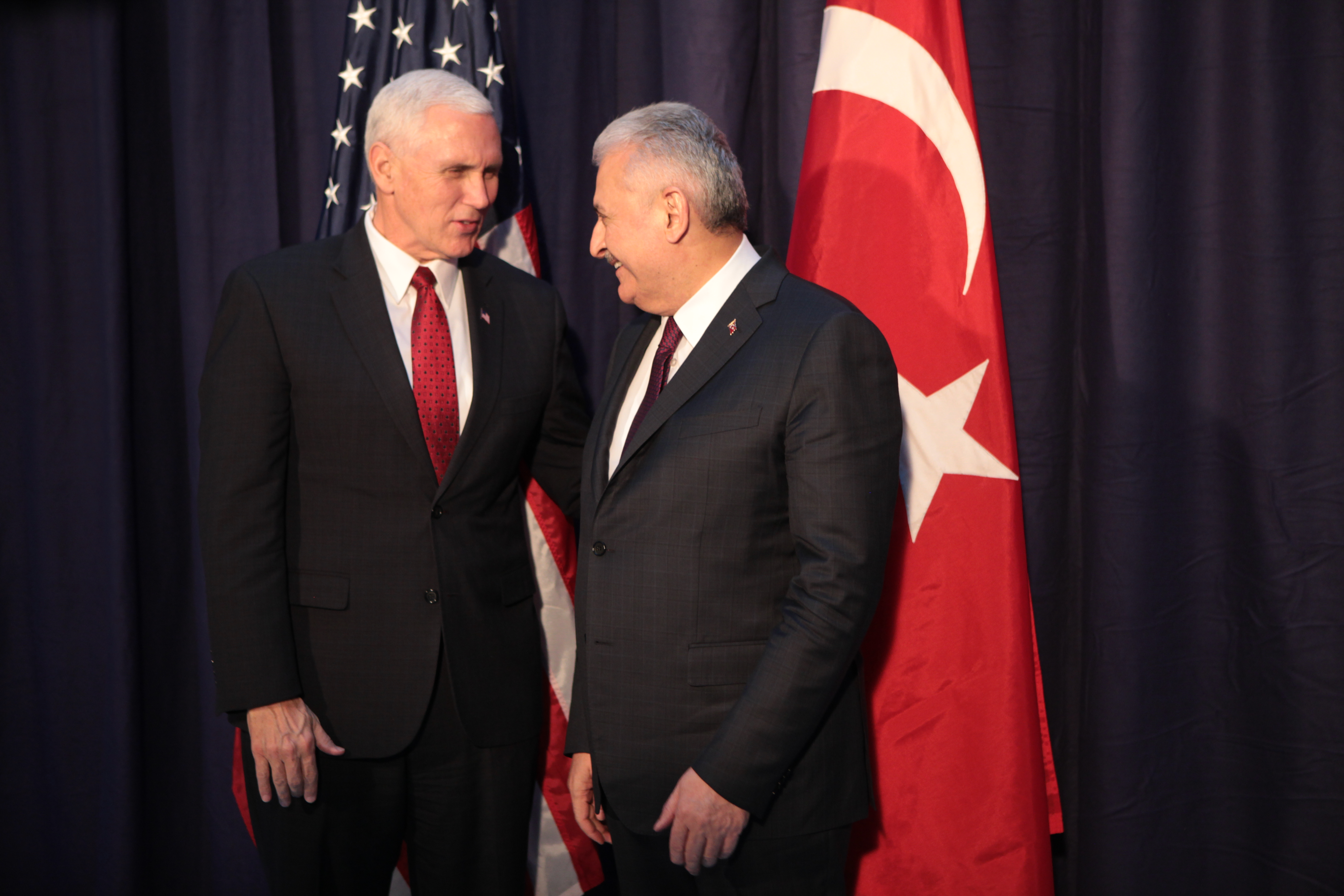 VP Mike Pence with Turkish Prime Minister Yildirim for bilateral talks